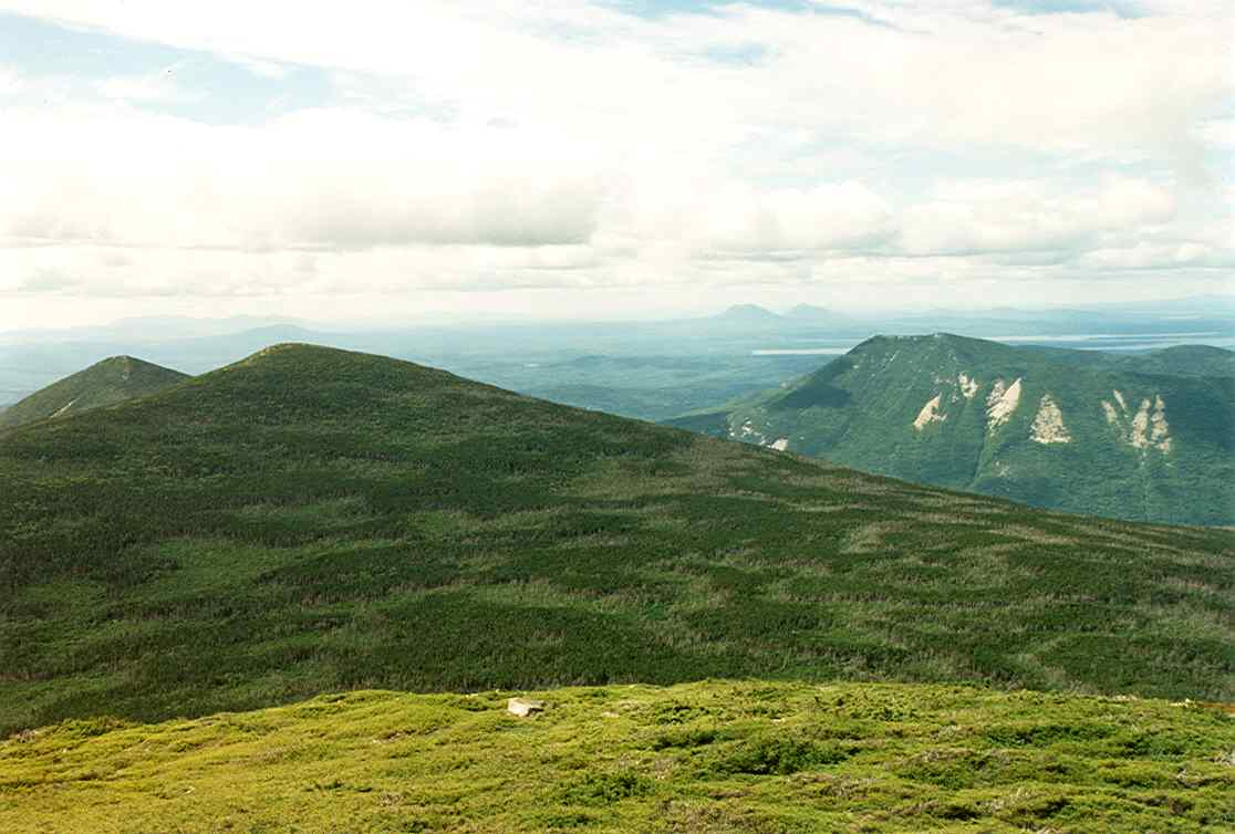 North Brother (L) and Fort Mountains (far L), Maine